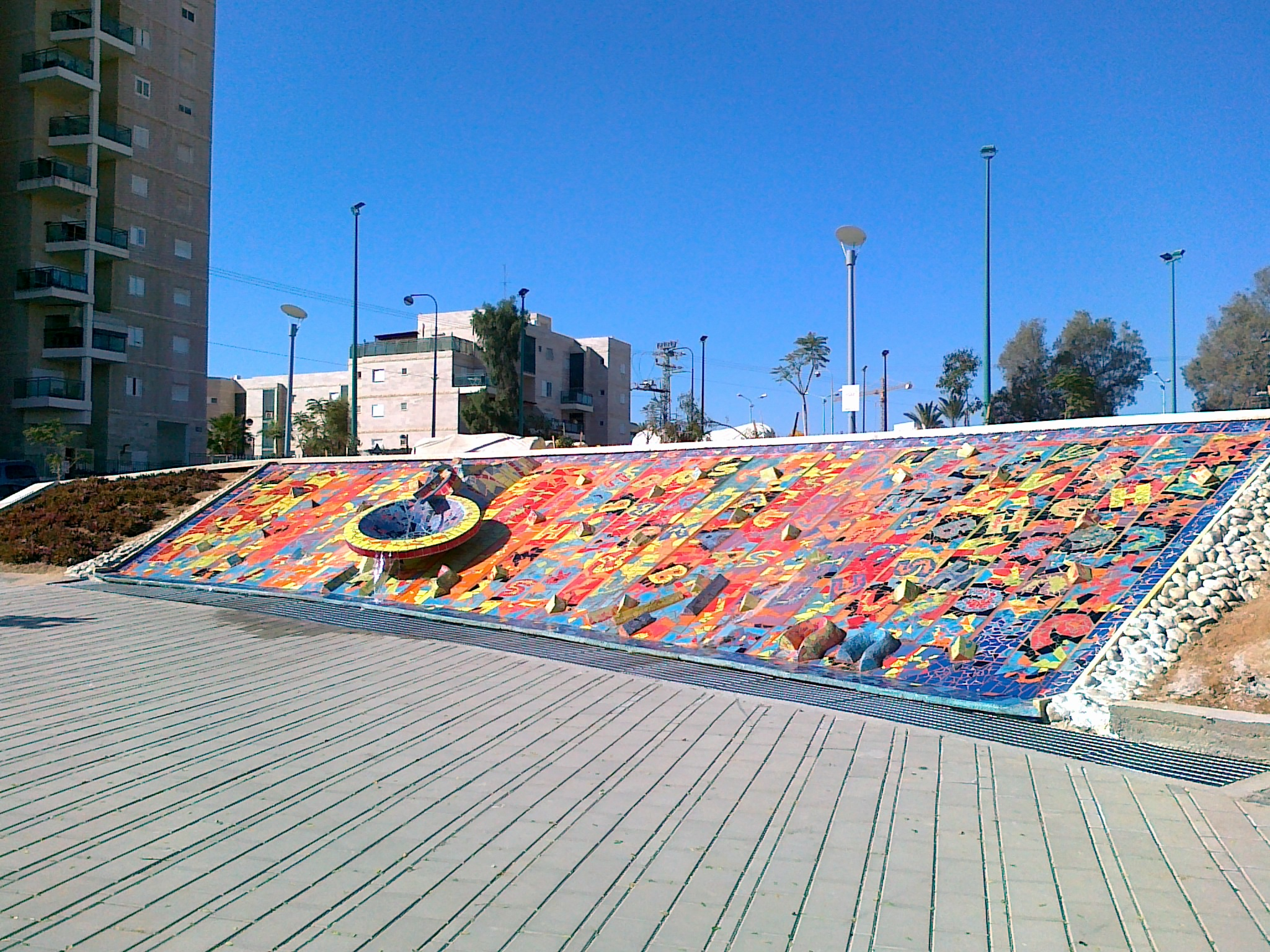 Mosaic fountain Johanna Jabotinsky Street, Beersheba 2012